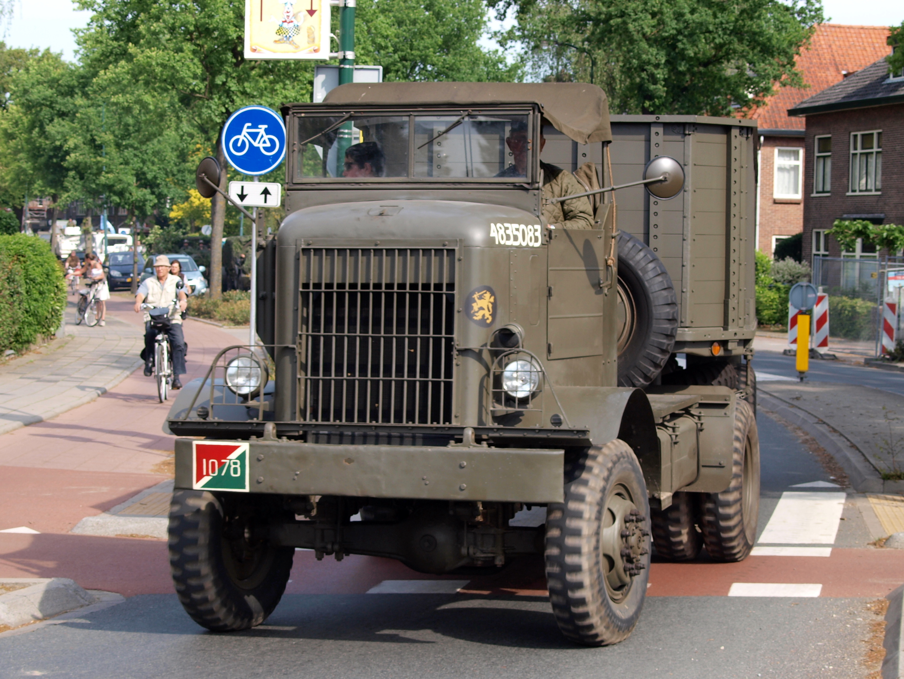 G510 4x4 Autocar U-7144-T, hoodnumber 4835083, Bridgehead 2011